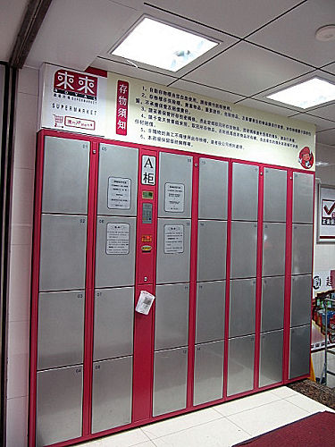 Locker in Royal Supermarket